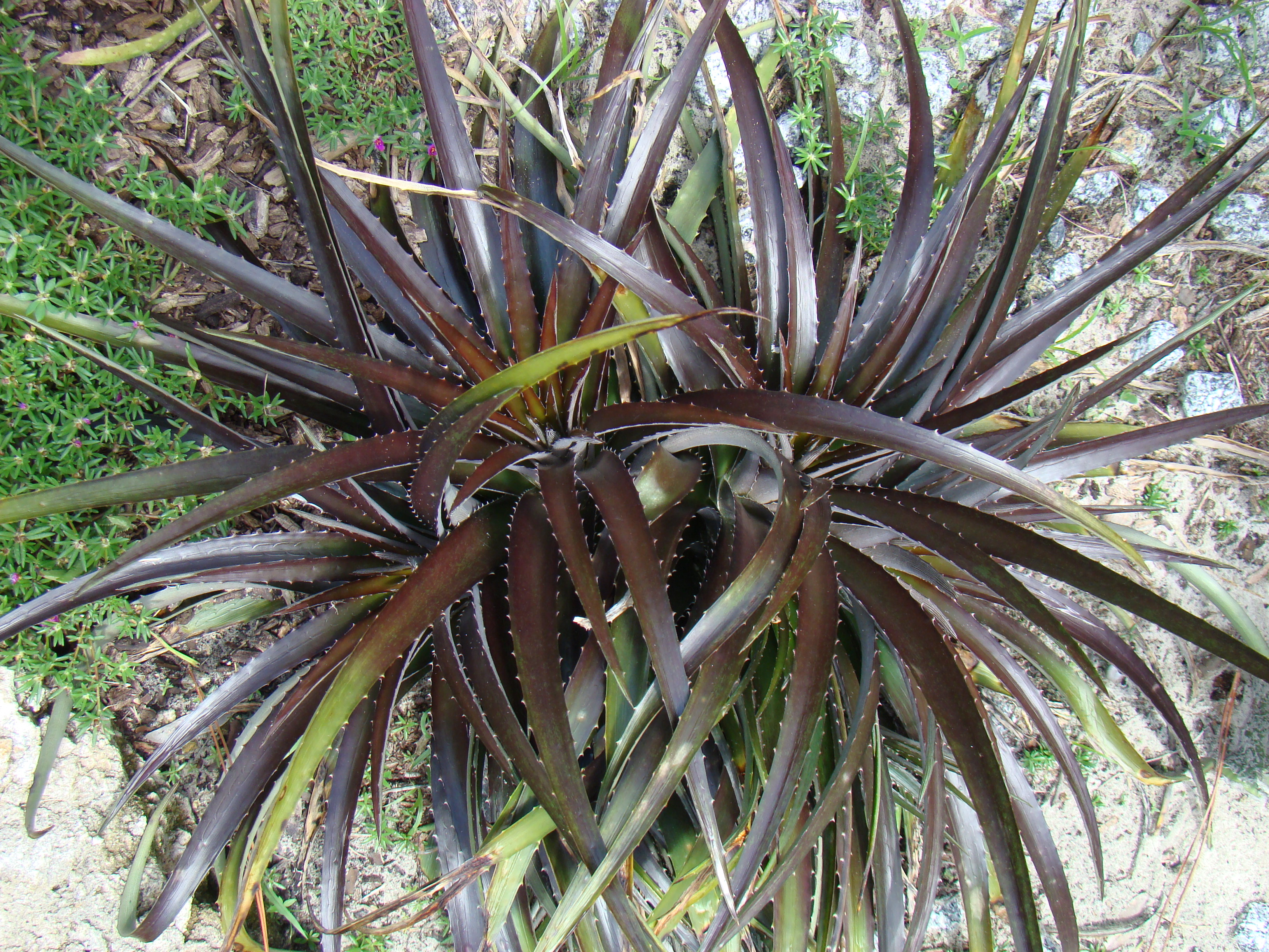 Dyckia platyphylla cv "Cherry Coke" (Dyckia / Bromeliaceae) in the Bromeliad collection of the University Of South Florida Botanical Garden, Tampa, Florida.